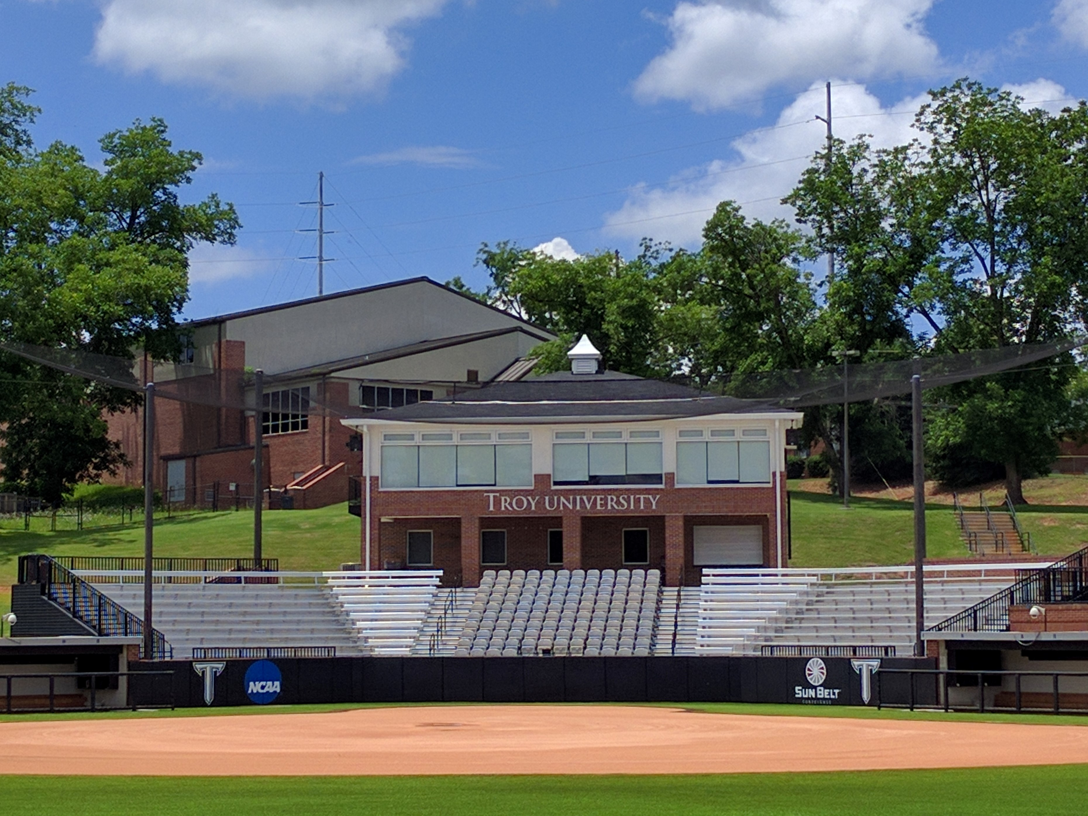 Center look from outfield toward Troy softball stadium.